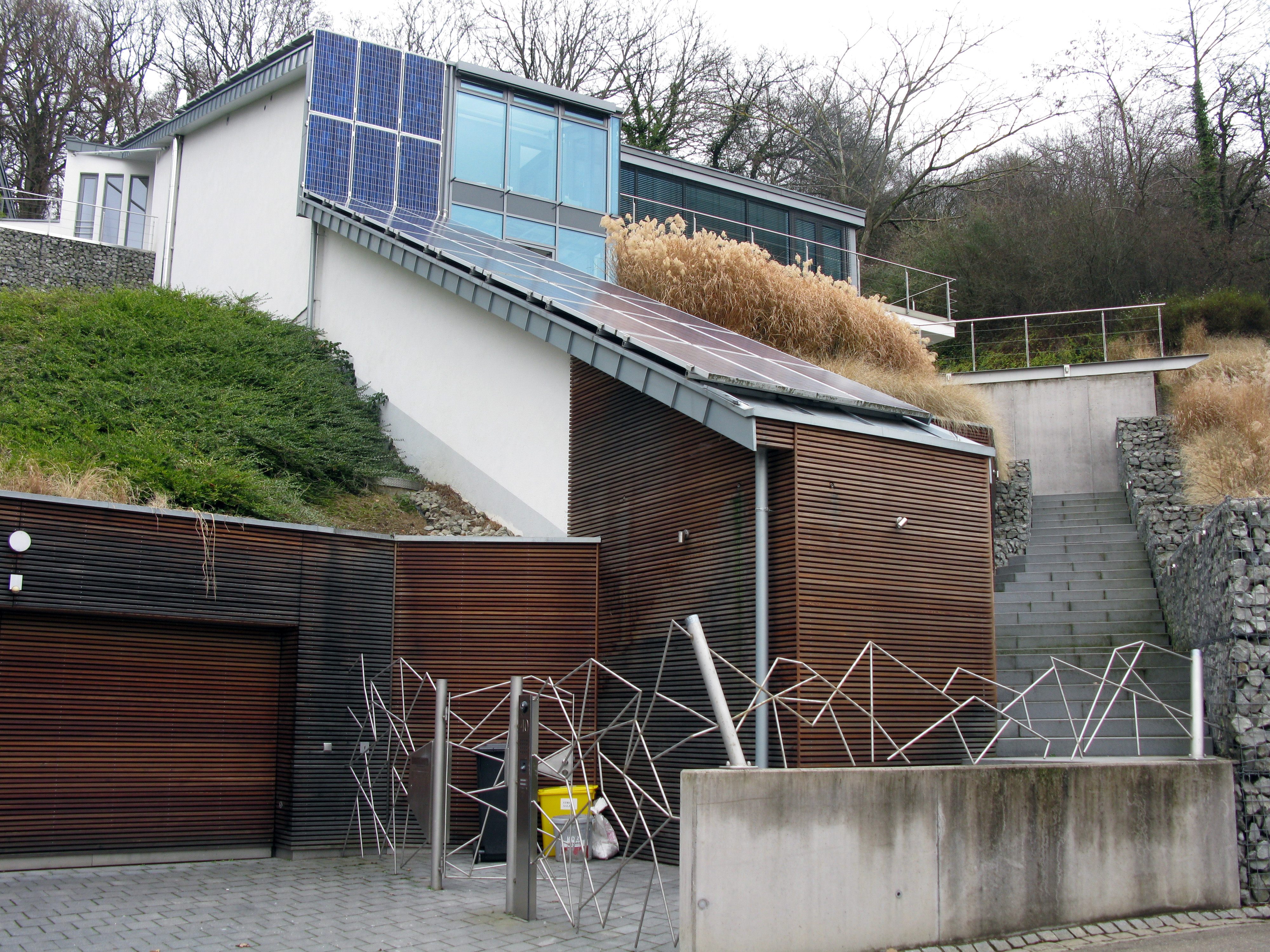 Die ehemalige Beltracchi-Villa in Freiburg-Herdern Wolfgang Beltracci Description German painter Date of birth4 February 1951Location of birthHöxterAuthority control VIAF: 305044601 LCCN: no2013081544 GND: 1020385138 WorldCat